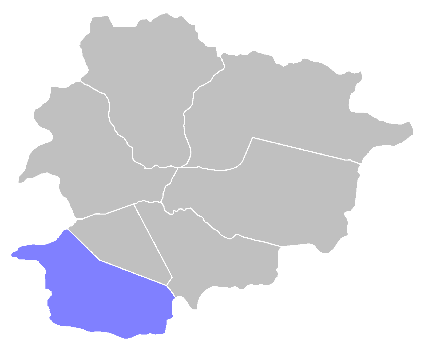 Map of the parish of Sant Julià de Lòria in the south of Andorra.